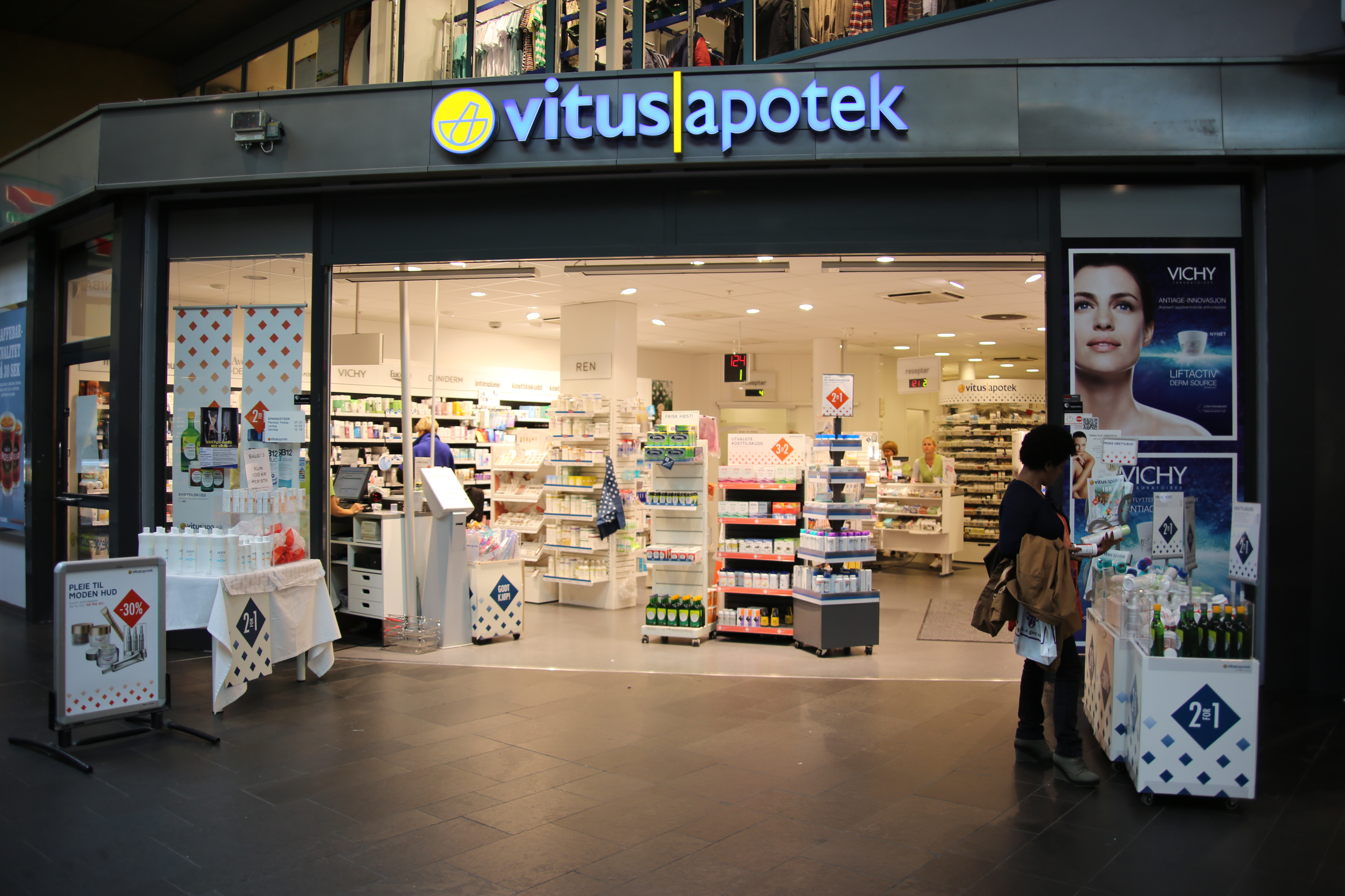 Vitusapotek with permission from Vitus